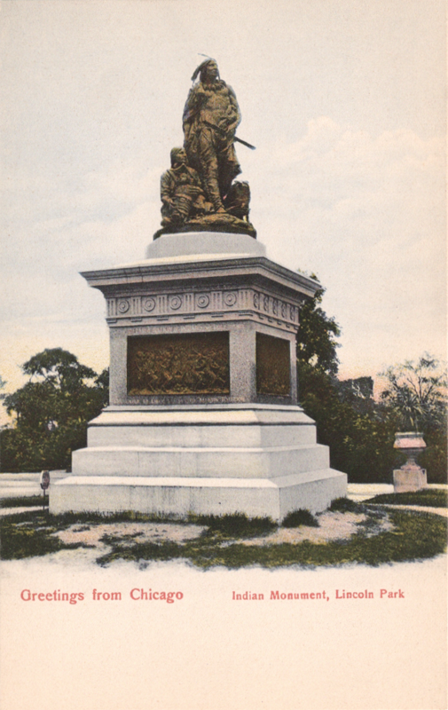 Matte color postcard of Indian Monument, Lincoln Park, Chicago, Illinois. Back is divided. Printed in Germany.